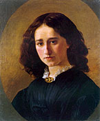 Portrait of Norwegian painter, Mathilde Dietrichson